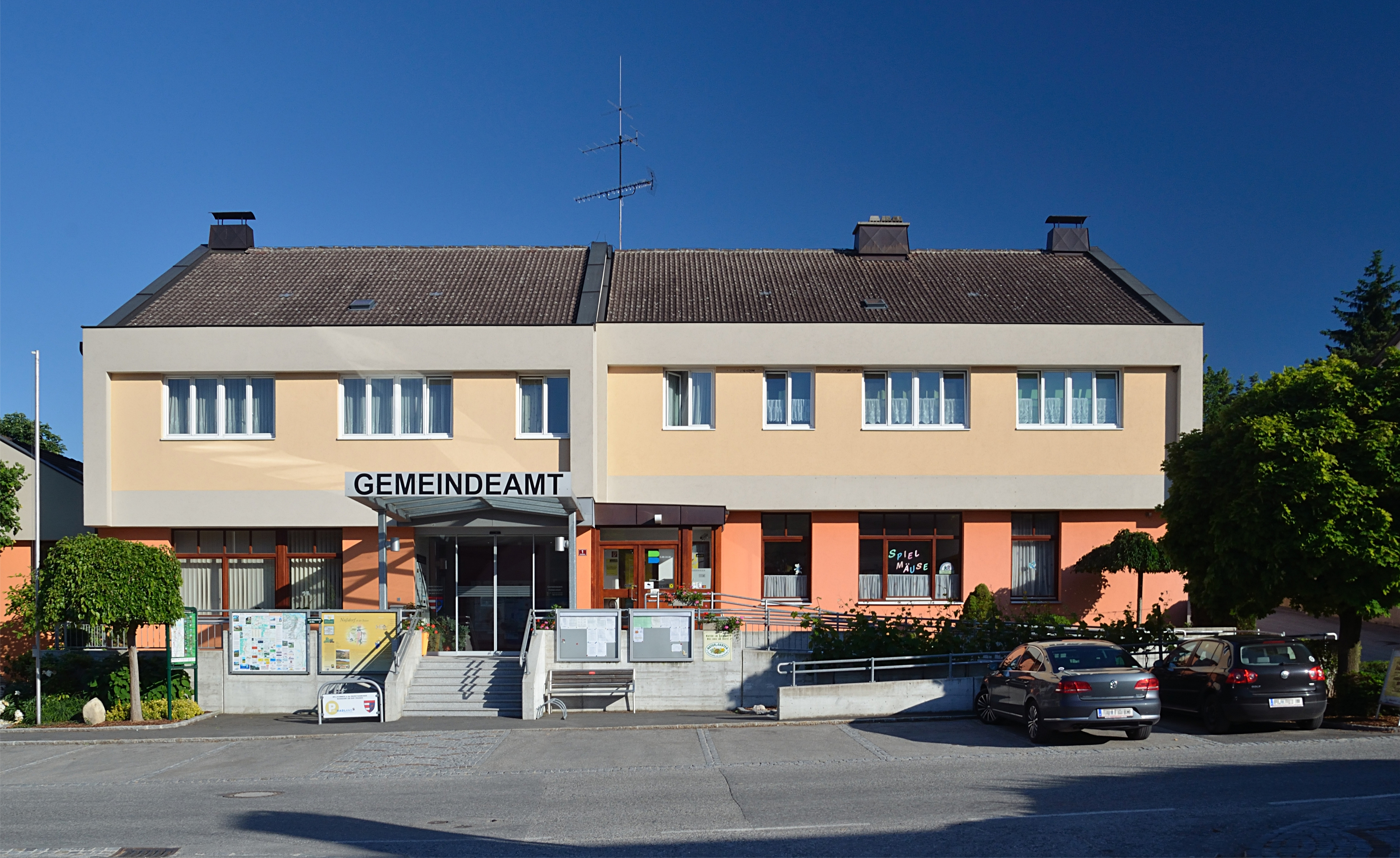 Municipal office in Nußdorf ob der Traisen, Lower Austria.